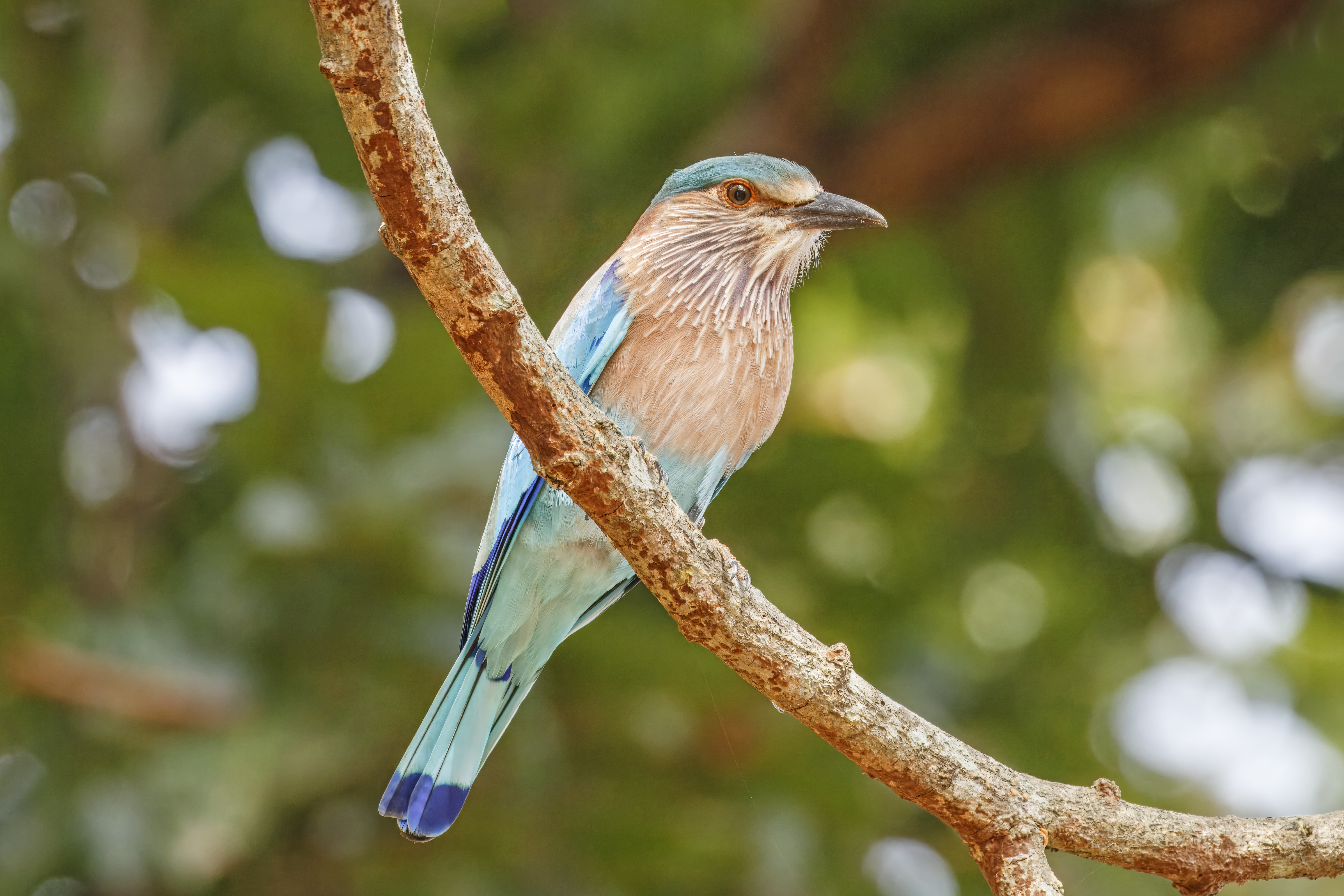 Indian roller (Coracias benghalensis benghalensis), Kanha National Park, MP, India